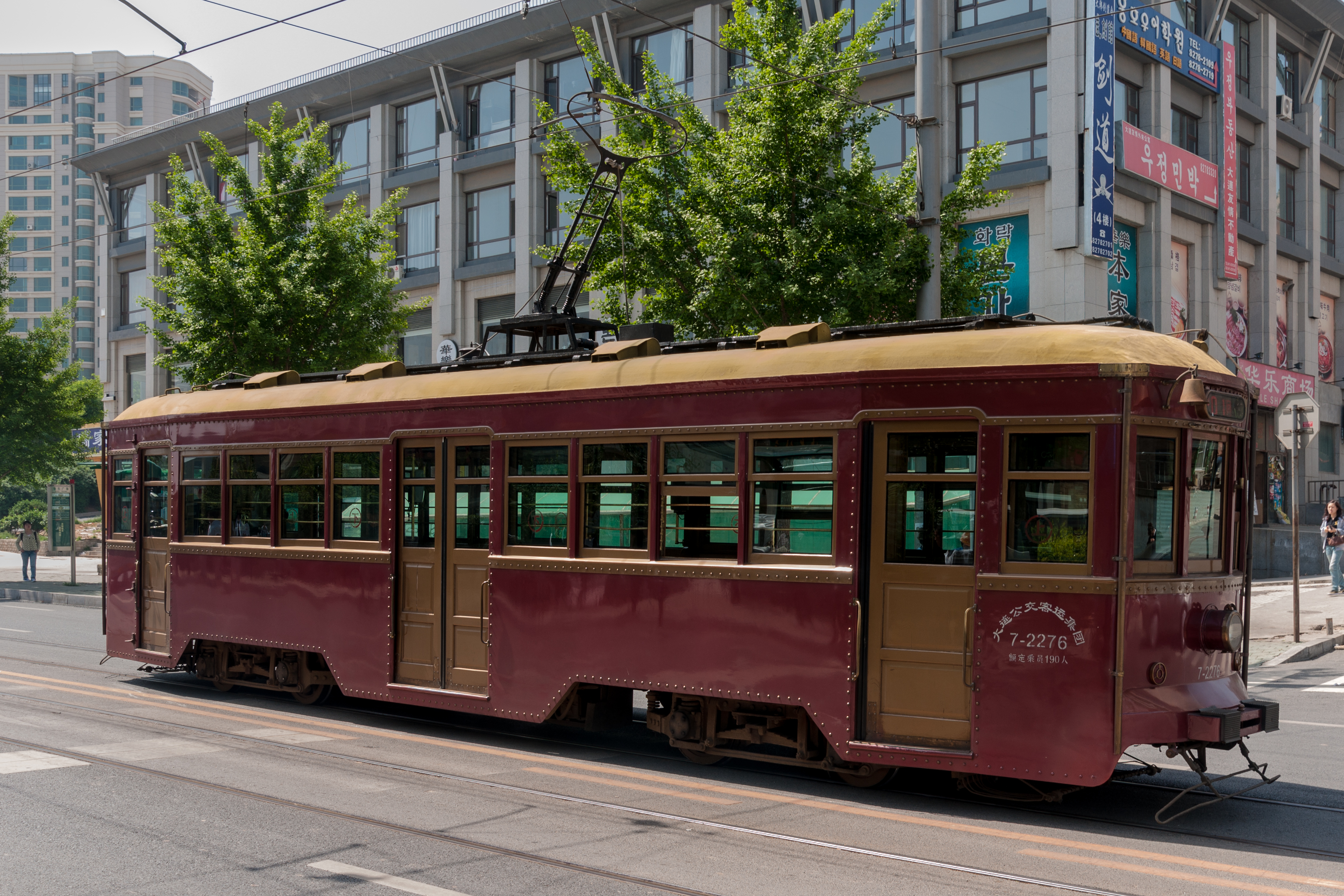 Dalian, Liaoning, China: Historical Tramway. It is still in use and serves for public transportation purpose.